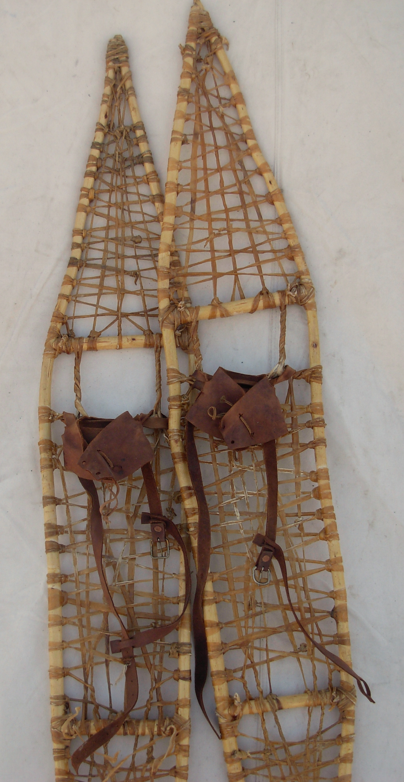 Pair of traditional rawhide snowshoes